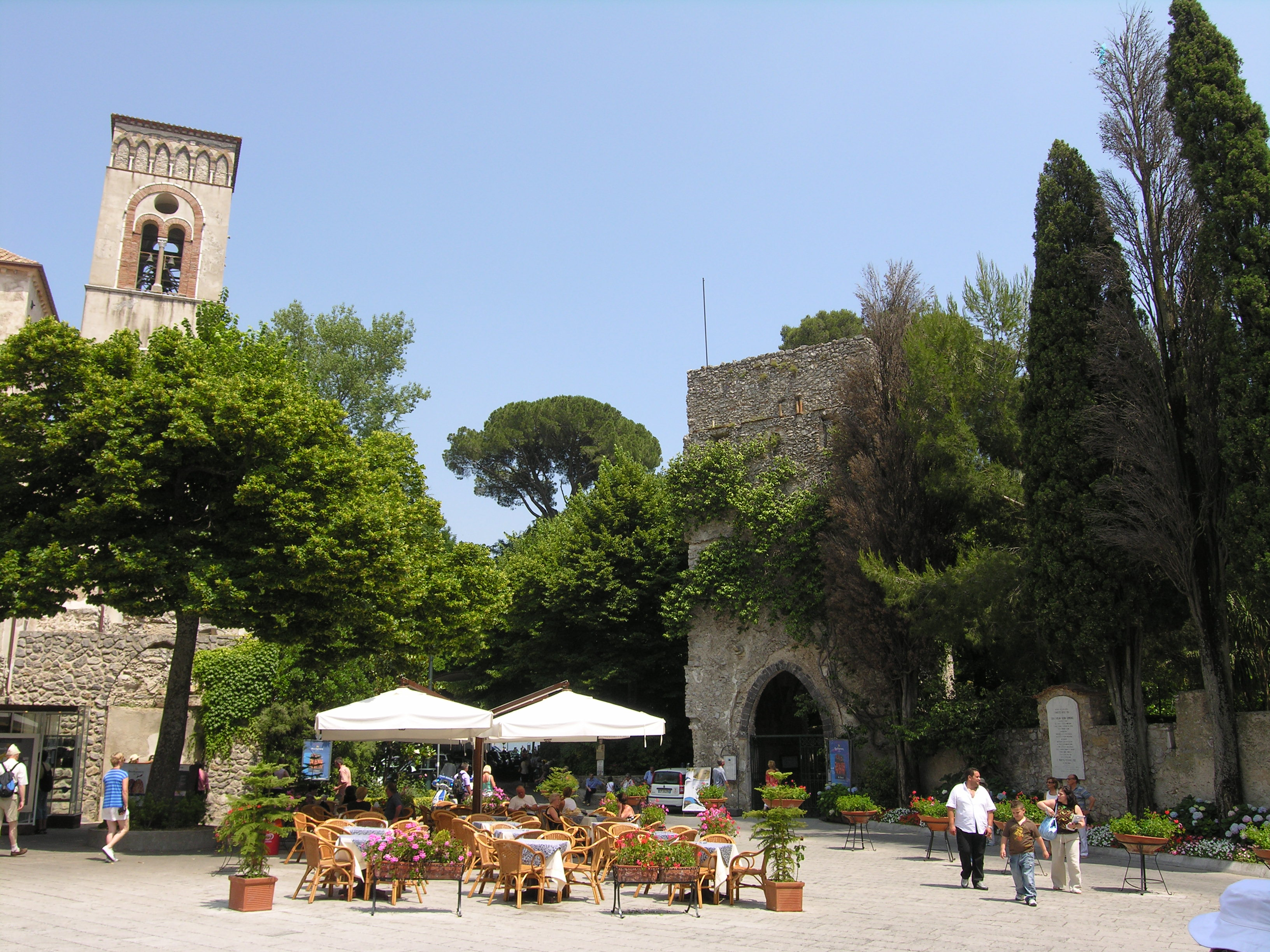 Piazza Duomo, center of the town of Ravello, Campania, Italy. june 2006